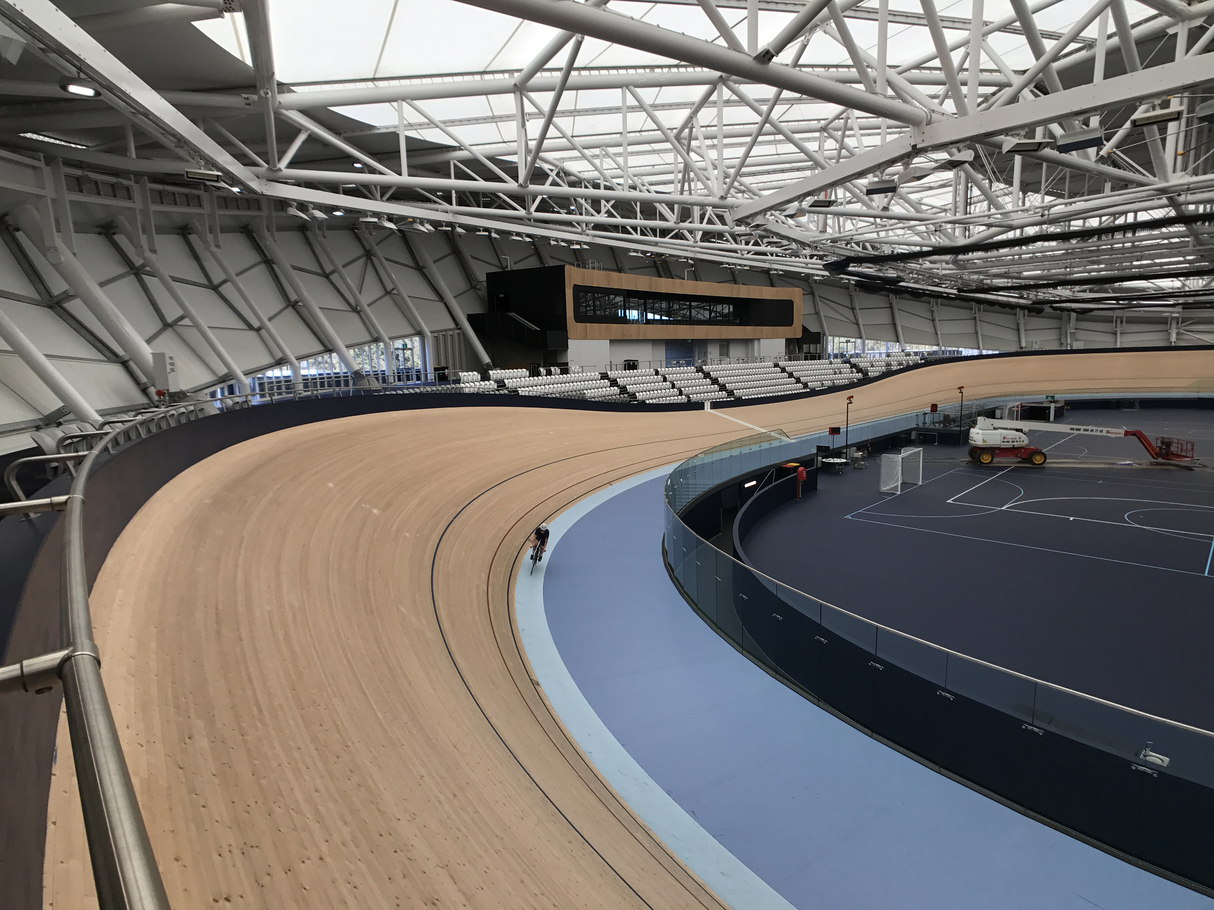 Anna Meares Velodrome, Brisbane, Queensland